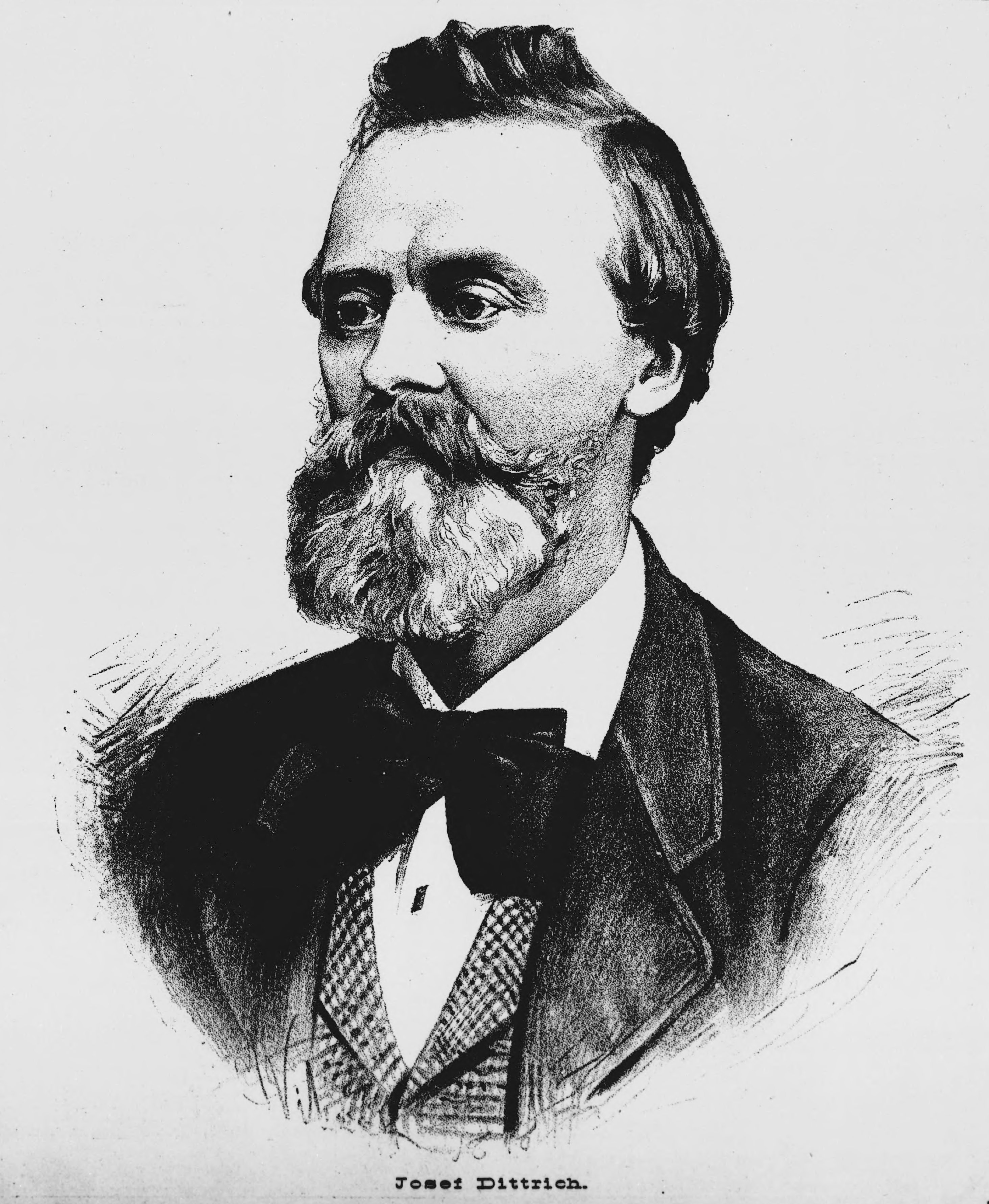 Portrait of Josef Dittrich (1818-1898), Czech pharmacist and politician.